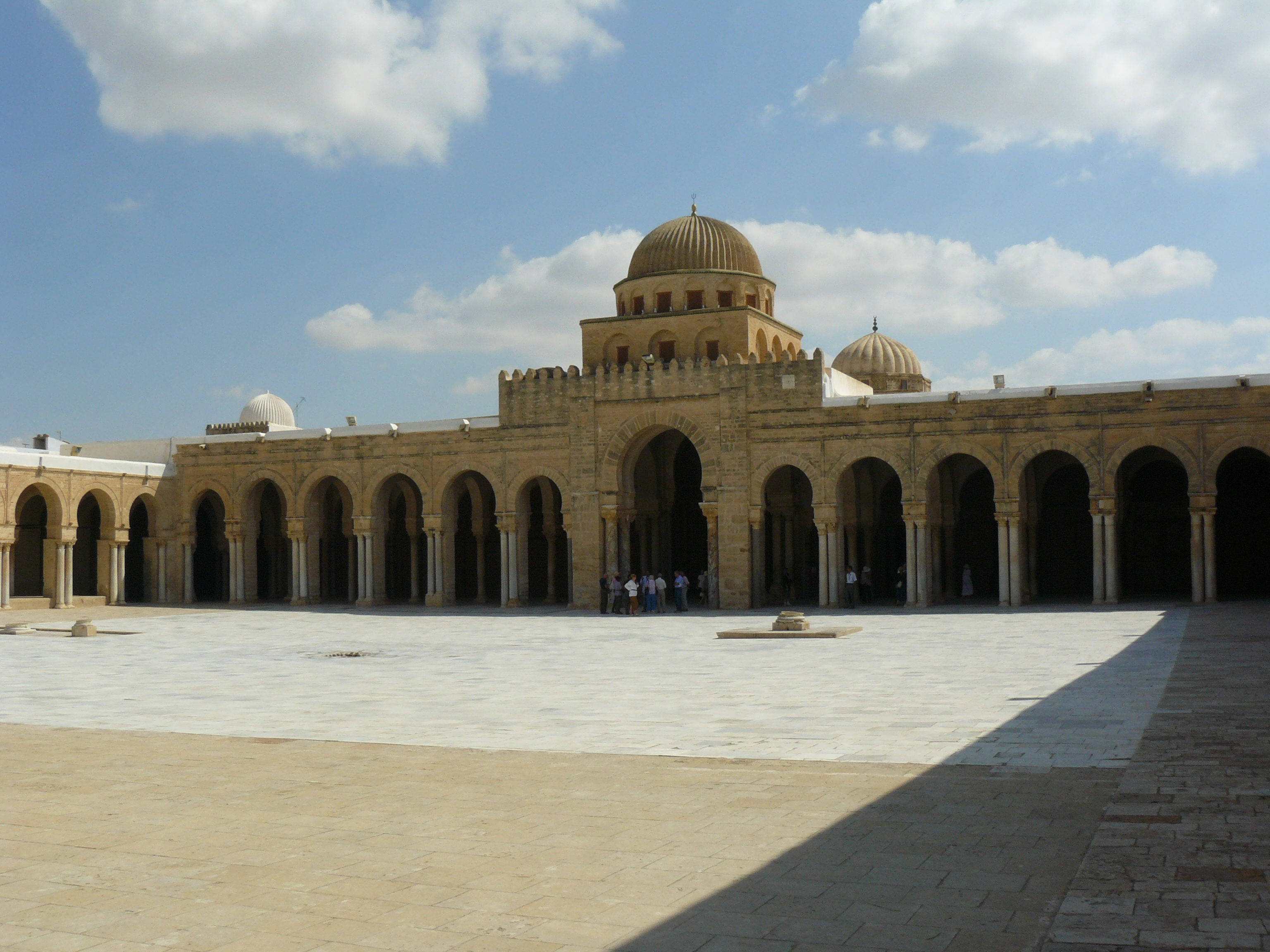 Courtyard of the Great Mosque of Kairouan on the prayer hall side